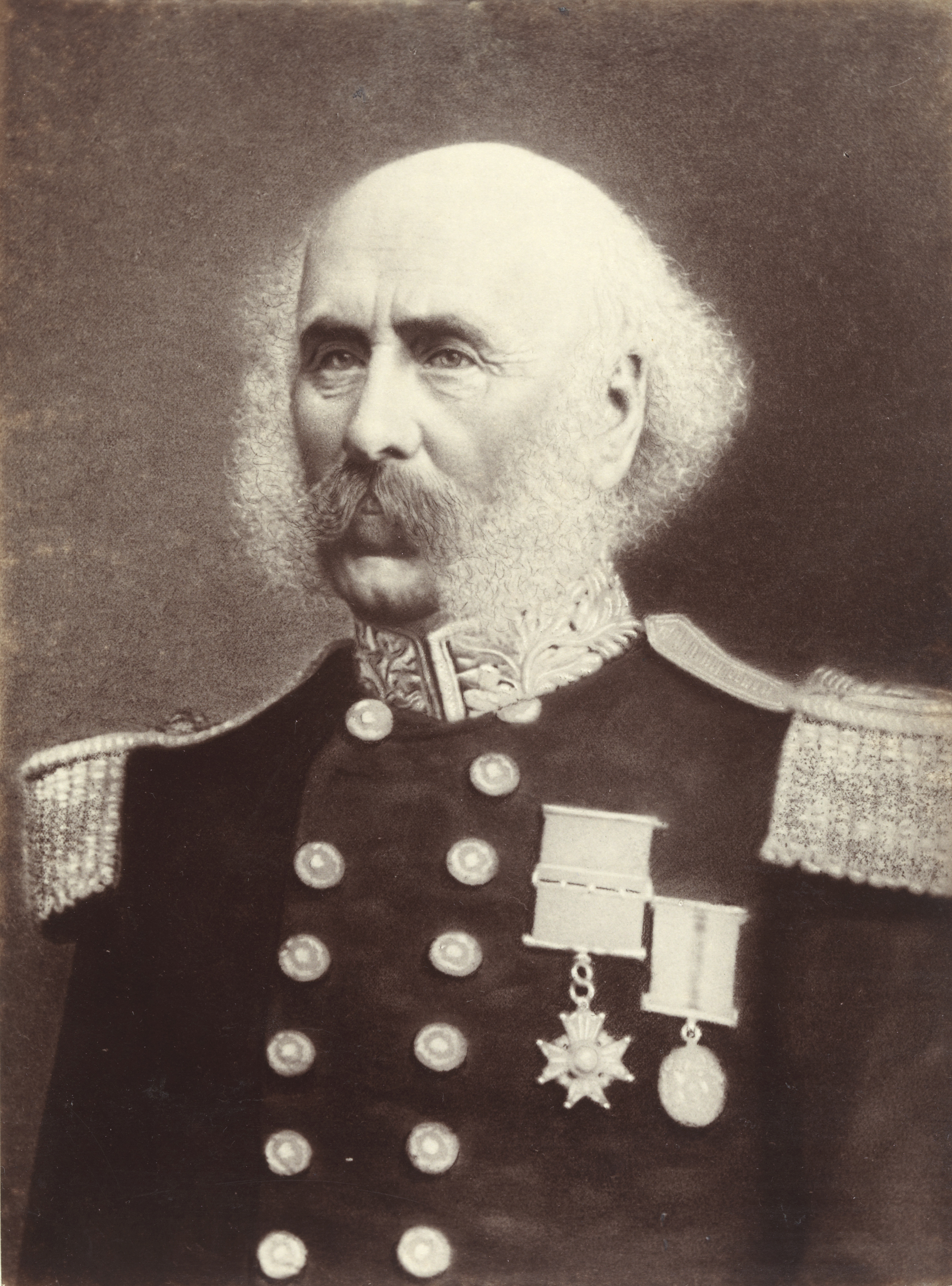 Col. T. Gore Browne, C.B., Governor-in-Chief of Tasmania, Governor of New Zealand 1855-1861